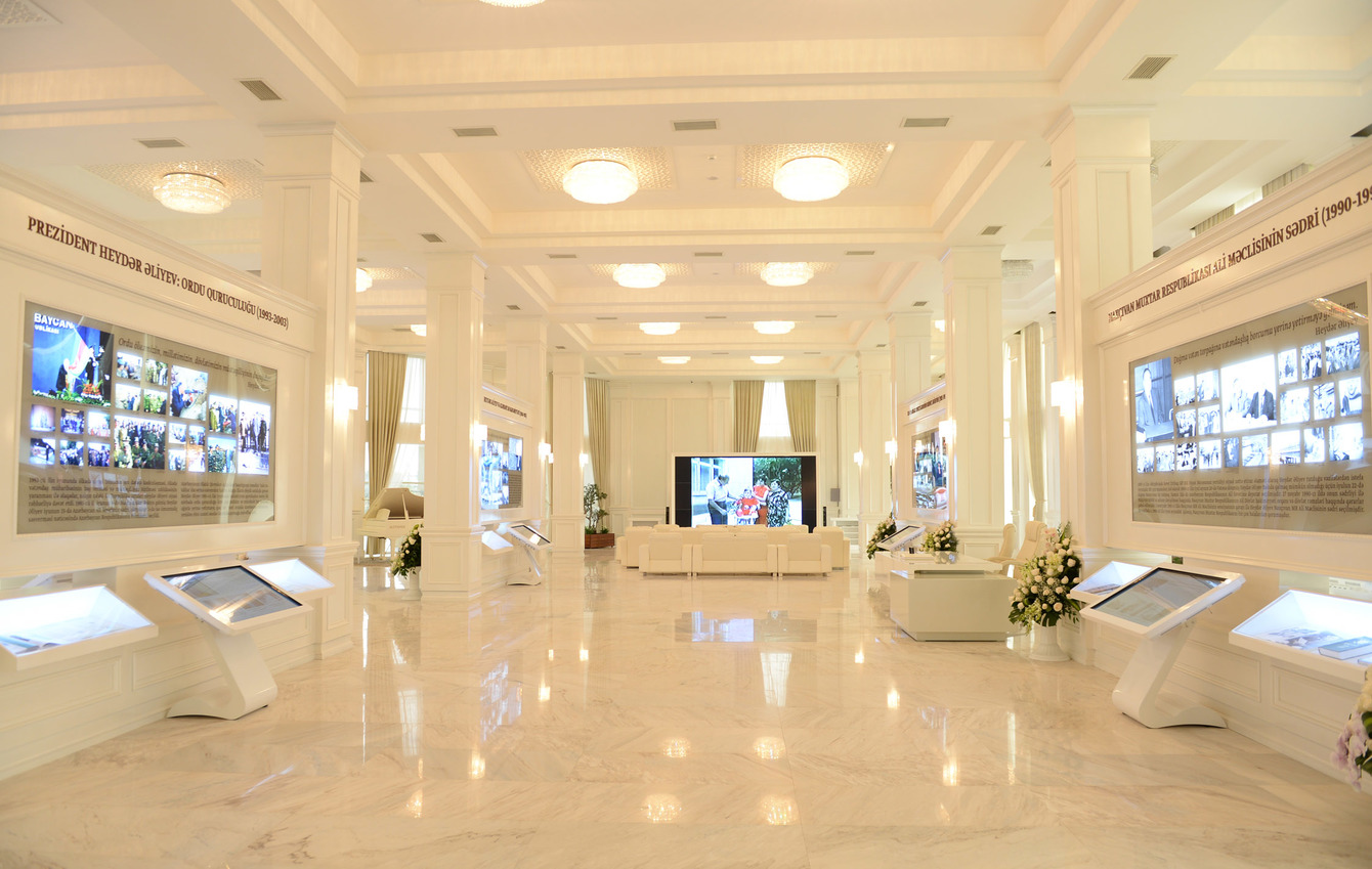 Ilham Aliyev attended the opening of the Heydar Aliyev Park Complex and the Heydar Aliyev Center in Ganja